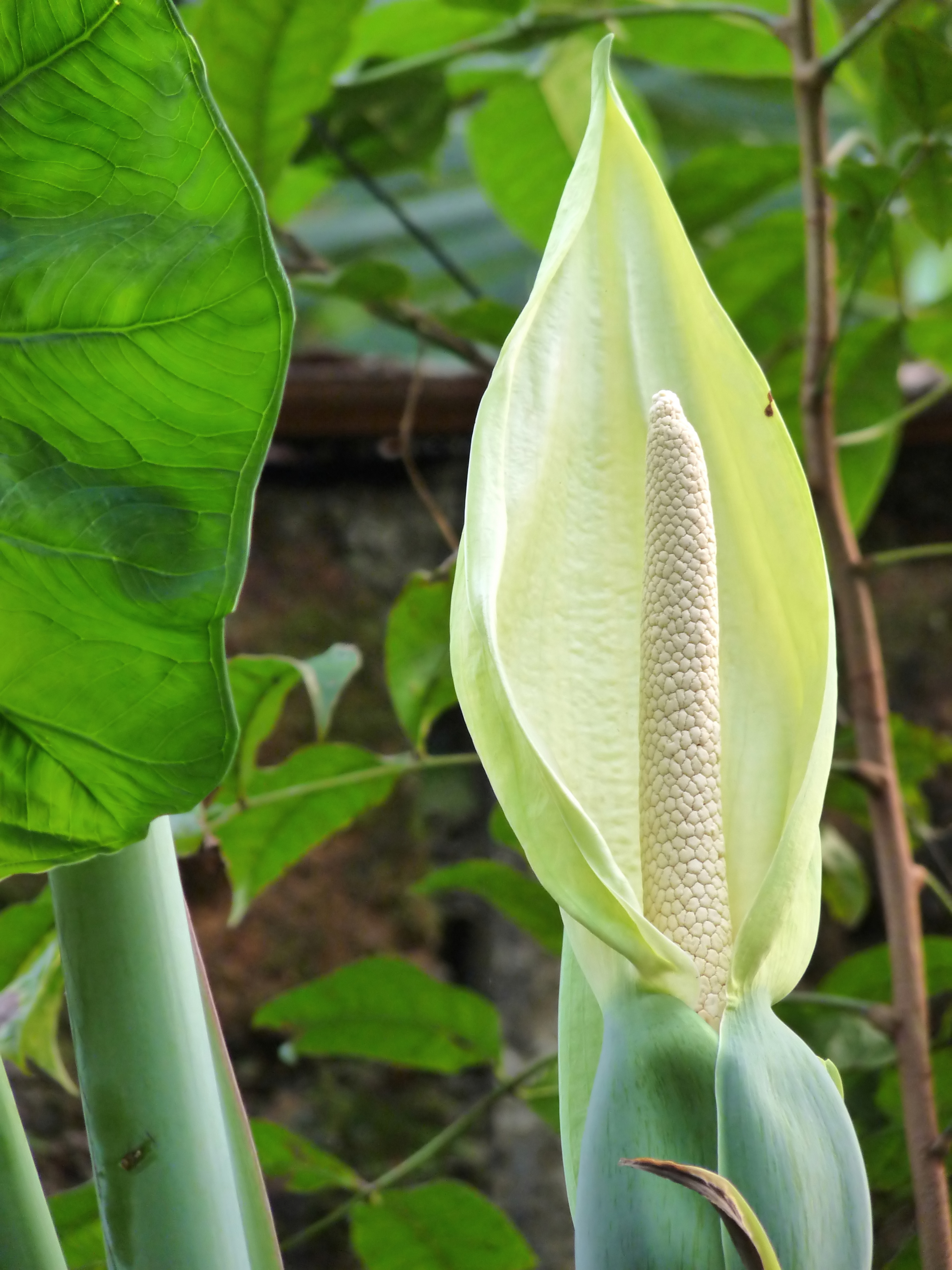 Xanthosoma sagittifolium, the Arrowleaf elephant ear, is a species of tropical flowering plant in the genus Xanthosoma, which produces an edible, starchy tuber.